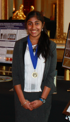 Deepika Kurup at the 2013 White House Science Fair